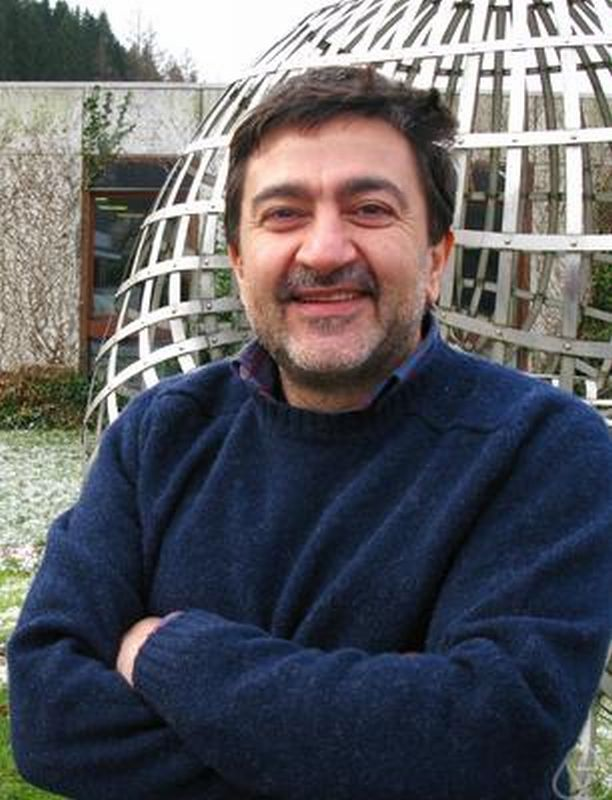 Antonio DeSimone, Oberwolfach 2009